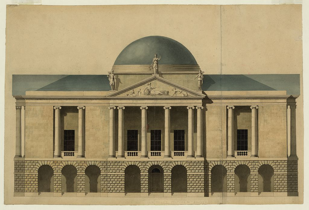 Title: New County Hall, Stafford, England. Proposed façade. Elevation Abstract/medium: 1 drawing : watercolor, ink, and graphite on paper ; 25.5 x 38 cm.